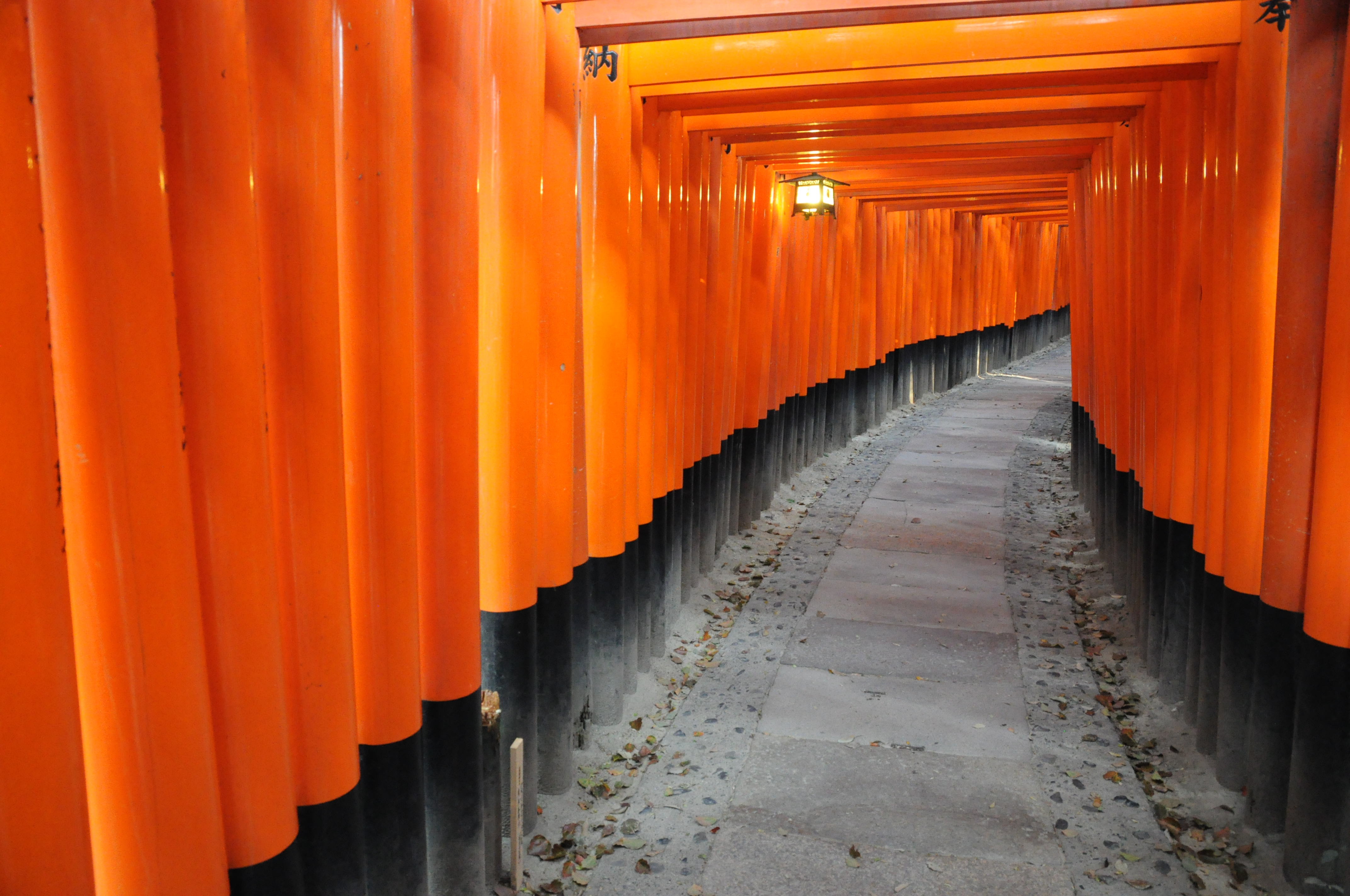 Torii at Fushimi Inari Taisha